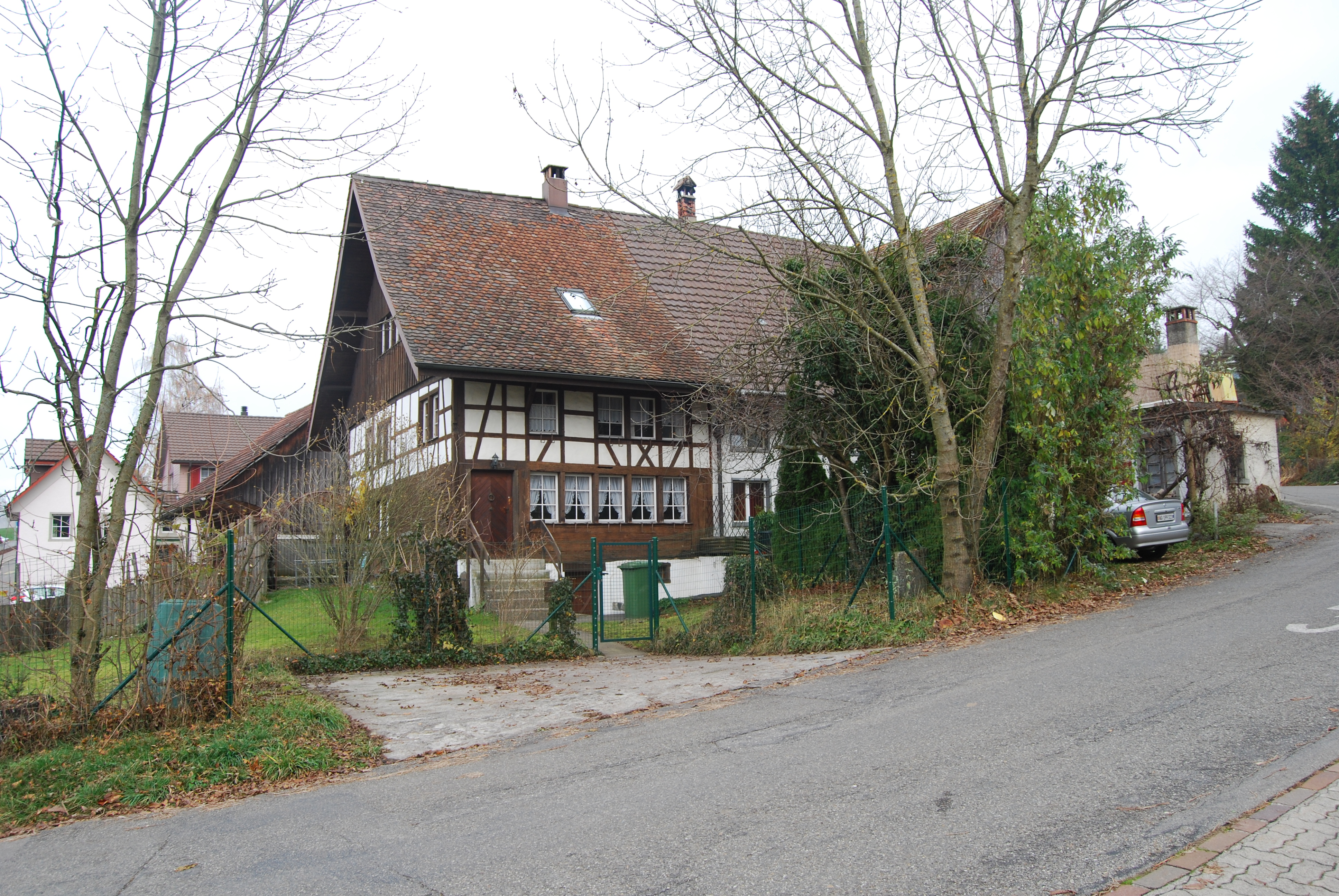 Timber framing house at Bellikon, canton of Aargau, SwitzerlandEsperanto: Faktrabdomo den Bellikon, Kantono Argovio, Svislando